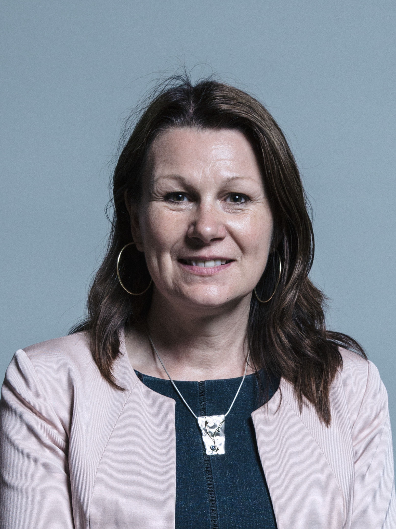 Official Parliamentary photograph of Sue Hayman MP. For confirmation of licence